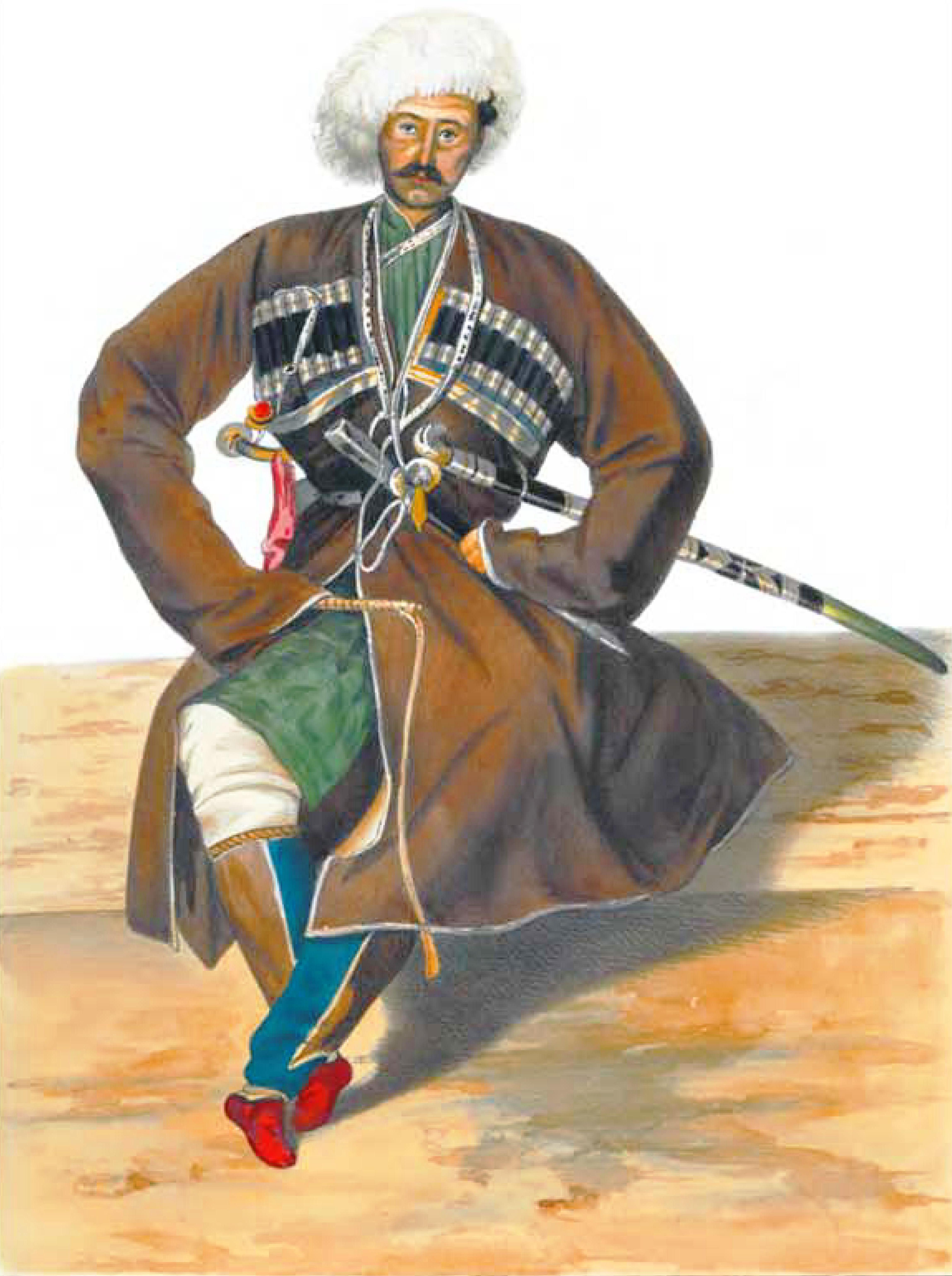 Prince Kazbek. From the album "Costumes of the Caucasus" by G. Gagarin